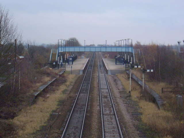 Gilberdyke Railway Station, Gilberdyke, East Riding of Yorkshire, England. Image retouched from File:Gilberdyke Railway Station.jpg for use in an article